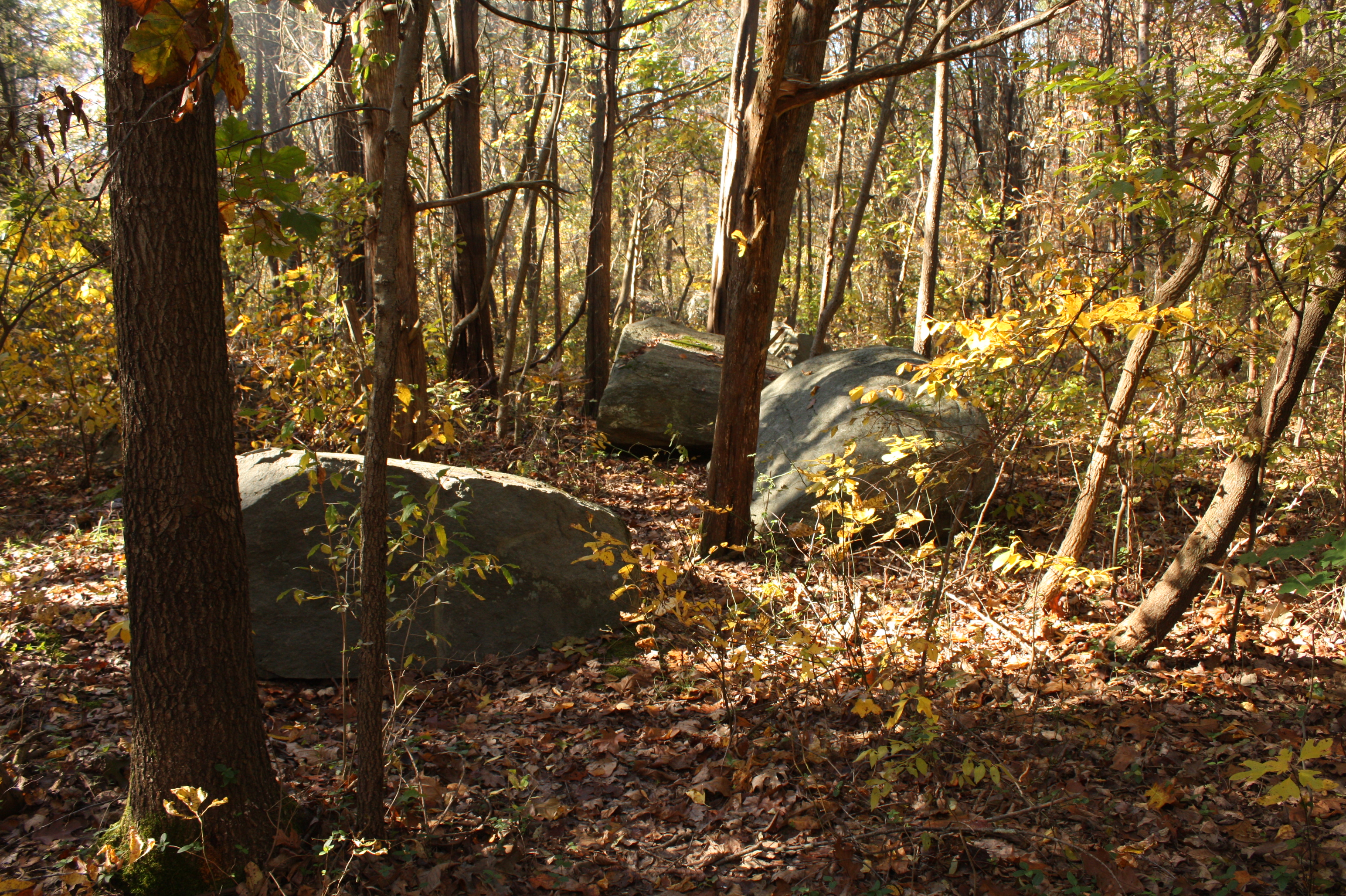 Diabase boulders in Gifford Pinchot State Park, Pennsylvania. These are near site 255 in the pet loop of the campground.